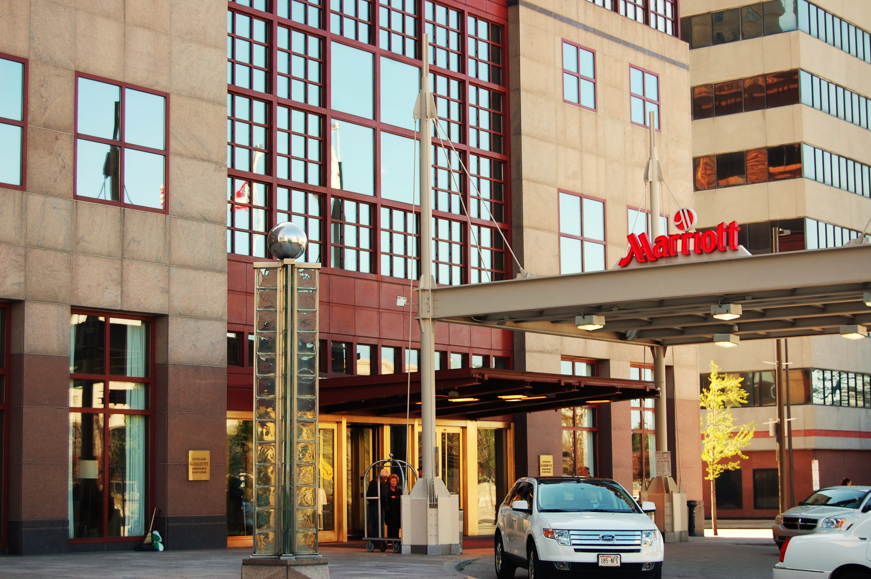 The east entrance of the Marriott at Key Center in downtown Cleveland, Ohio